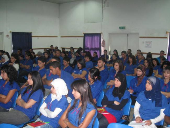 Youth guides from the Arabic sector of the Israeli Working and Studying Youth Movement ("HaNoar HaOved VeHaLomed").